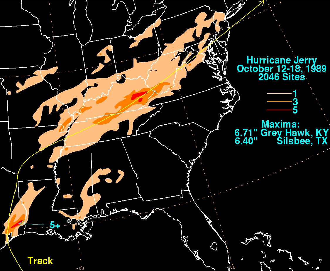 Rainfall produced by Hurricane Jerry during October 1989.